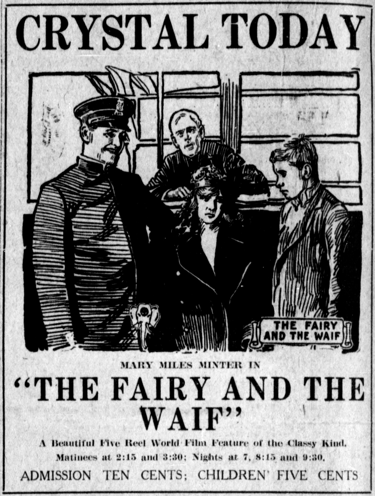 The Fairy and the Waif is a 1915 silent drama film directed by Marie Hubert Frohman and George Irving. This is a newspaper advert for the film.